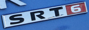 SRT-Badge - Chrysler Crossfire SRT-6